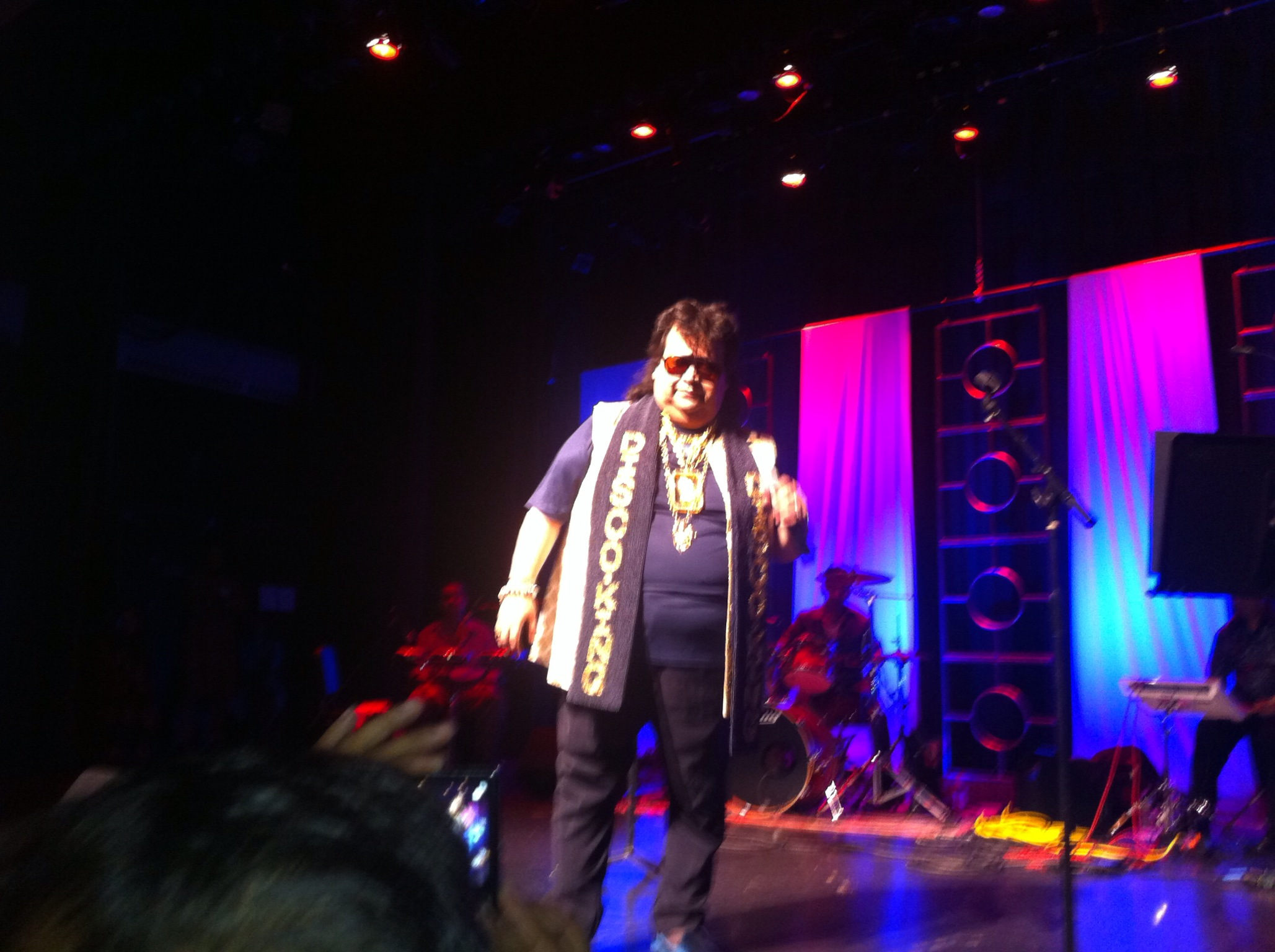 Bappi Lahiri, an Indian music director and singer, performing live on stage in a concert near Boston, Massachusetts, 2012